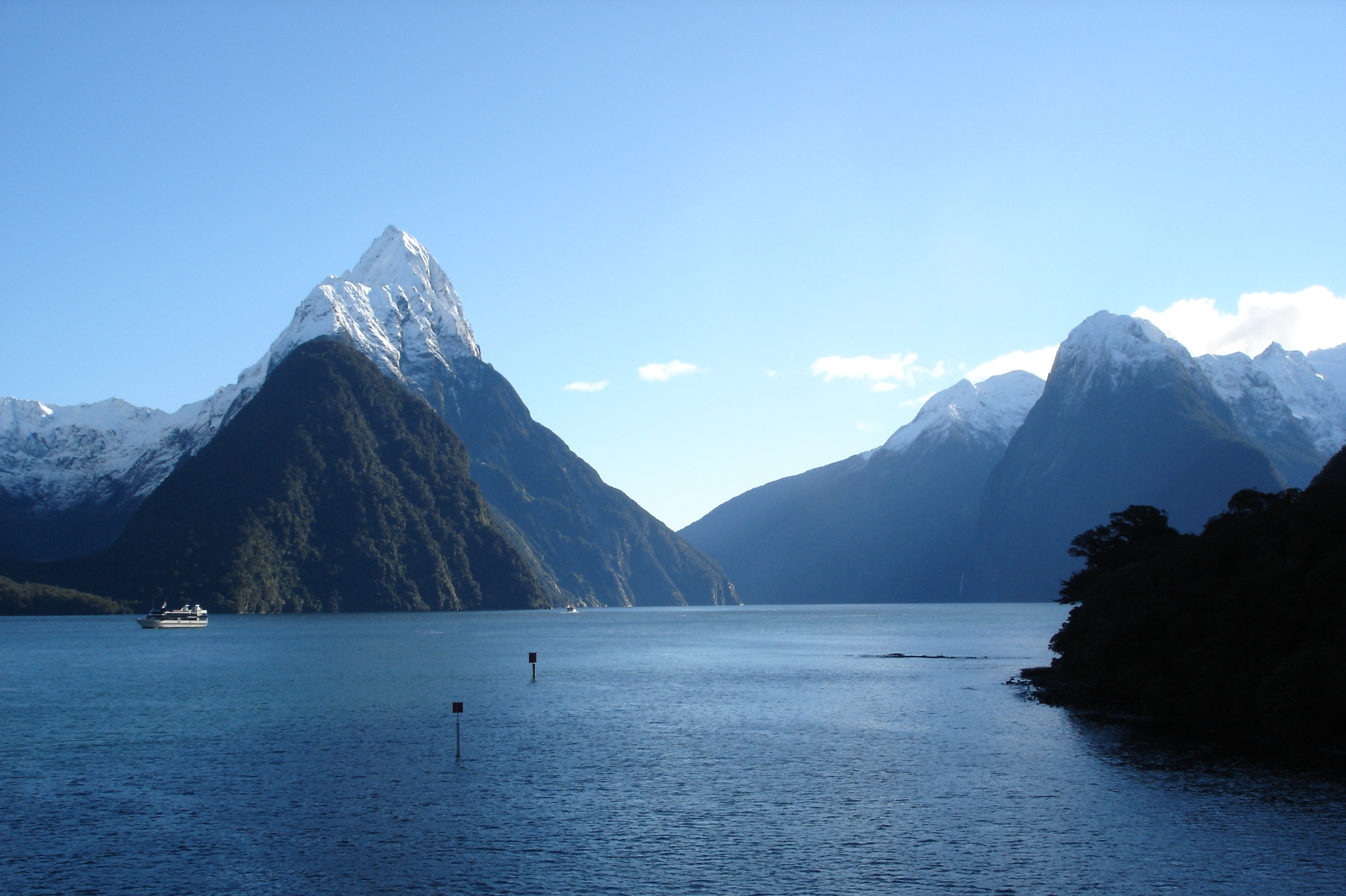 New Zealand's Milford Sound. Milford Sound, one of New Zealand's most famous tourist destinations[59]. Milford Sound, New Zealand. The terminus of SH 94, and the breathtaking view that rewards the weary traveller. Mitre Peak on the left, with winter snow Fiji Hindi: Milford Sound.